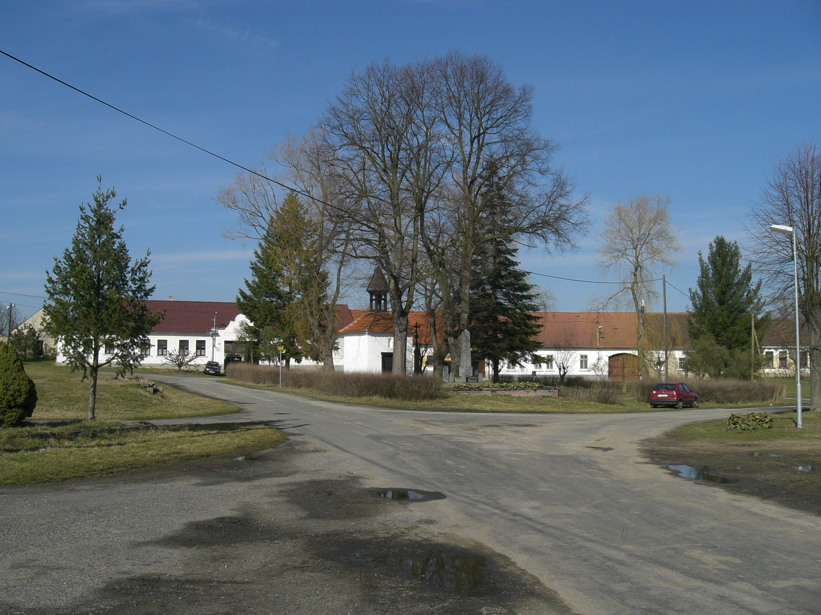 Maletice - part of Protivín town in Písek district, Czech Republic.